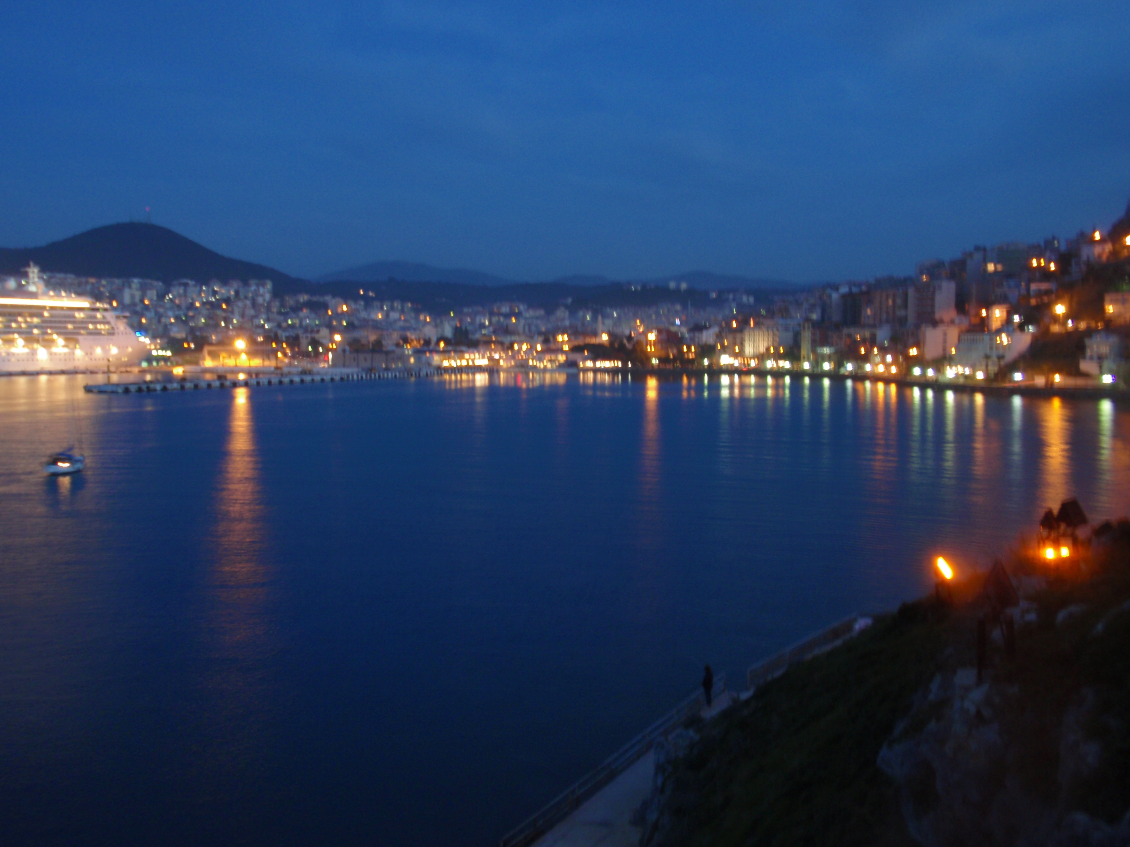 Kuşadası,from Castle at Night